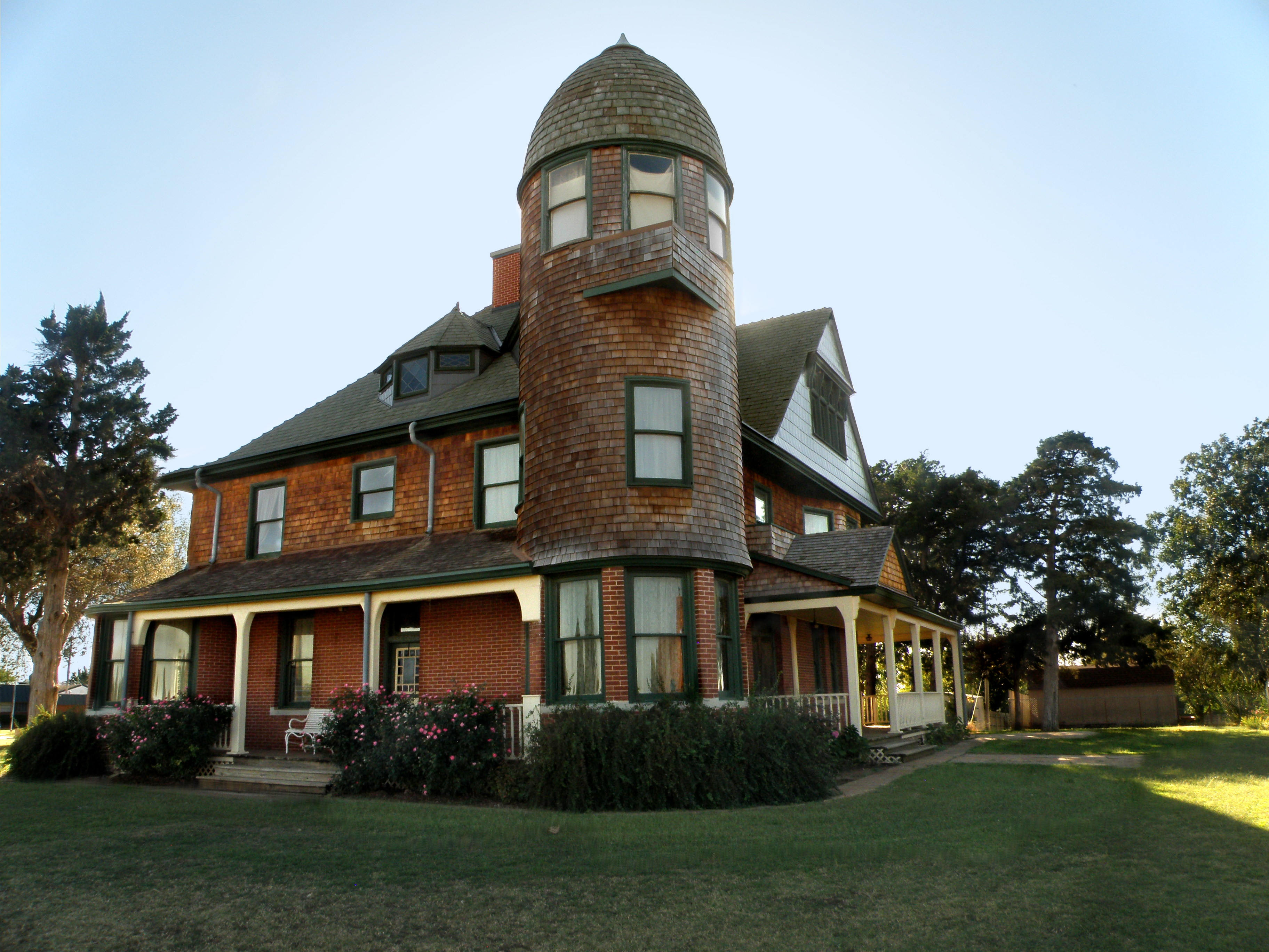 Chisholm Trail Museum - Governor Seay Mansion - 1892 Queen Anne Victorian Home, Kingfisher, OK USA